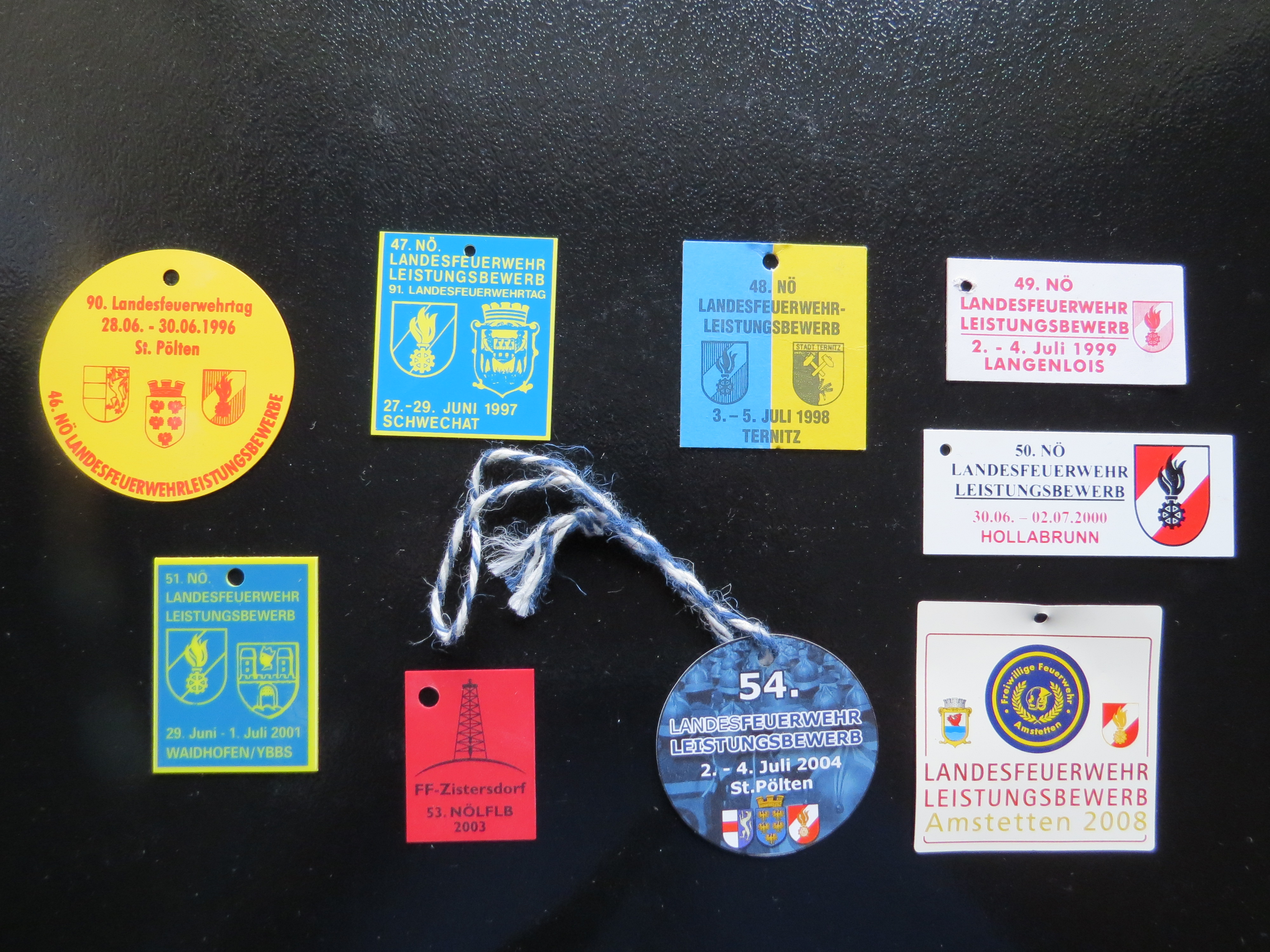 Badges of the Niederösterreichischen Landesfeuerwehrleistungsbewerb